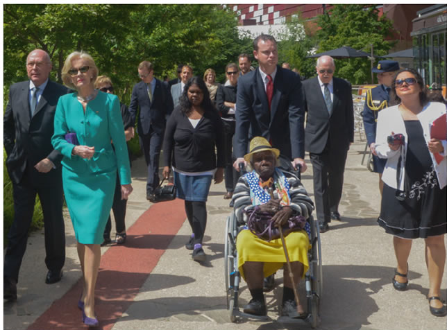 Indigenous artist, Lena Nyadbi, attends the Custodianship Ceremony for her installation 'Dayiwul Lirlmim', on the roof of the Musée du Quai Branly, Paris, 2 June 2013. Accompanying Lena Nyadbi (left to right): President of the Musée du Quai Branly, Stéphane Martin; Governor-General Quentin Bryce AC CVO; the artist; and Chair of the ATSIA Board of the Australia Council for the Arts, Lee-Ann Buckskin.